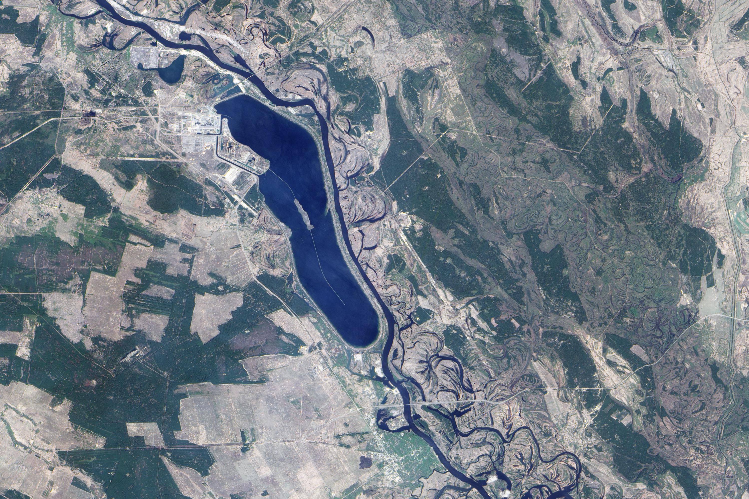 This true-colour picture shows the nuclear reactor. The large body of water in the left half of the image is the north-western end of a 12-kilometre long cooling pond, and water channels run through the network of reactor-related buildings west of the pond. Reactor number four appears on the west end of a long building north-west of the right-angled L-shaped water channel. Mixing with the network of abandoned buildings, water channels, and roads, areas of green appear—a testament to the vegetation that was growing around the site some 20 years after the accident.